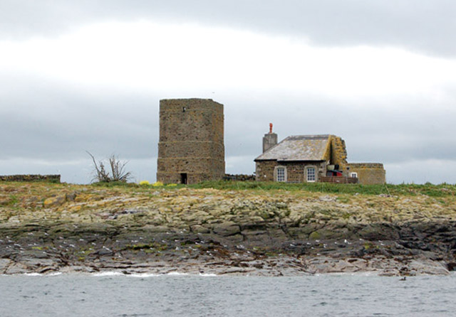 Warden's cottage and tower, Brownsman island